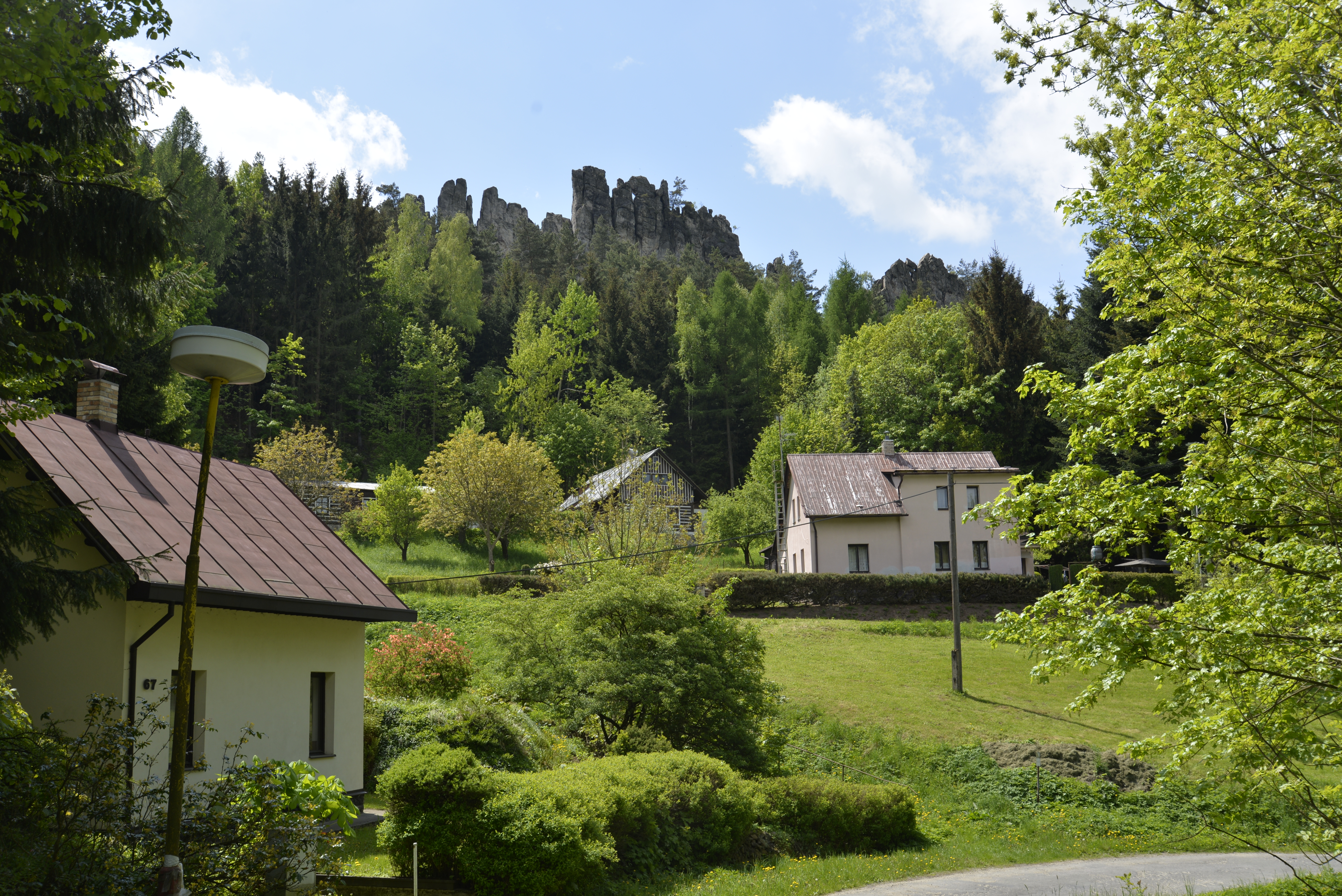 Prosíčka, part of Koberovy, close to Železný Brod, Suché skály rock on horizont